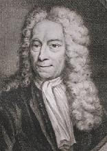 Image of Isaac van Hoornbeek (1655-1727), Grand Pensionary of Holland from 1700 till 1727